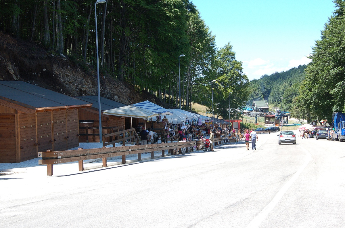 Blockhaus (Abruzzo) Majella National Park